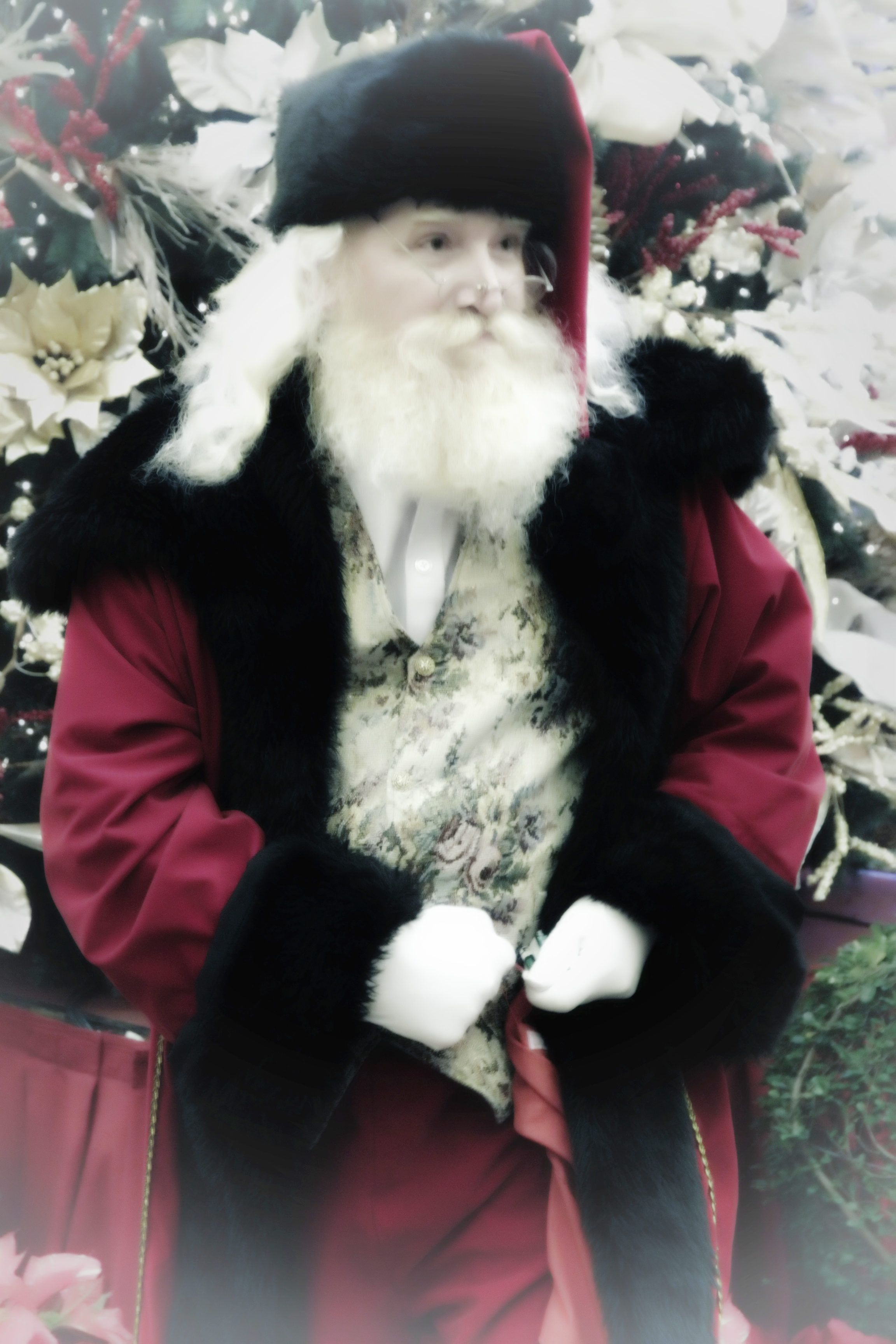 Century Park Hotel In Manila tree lighting event Nov. 2015